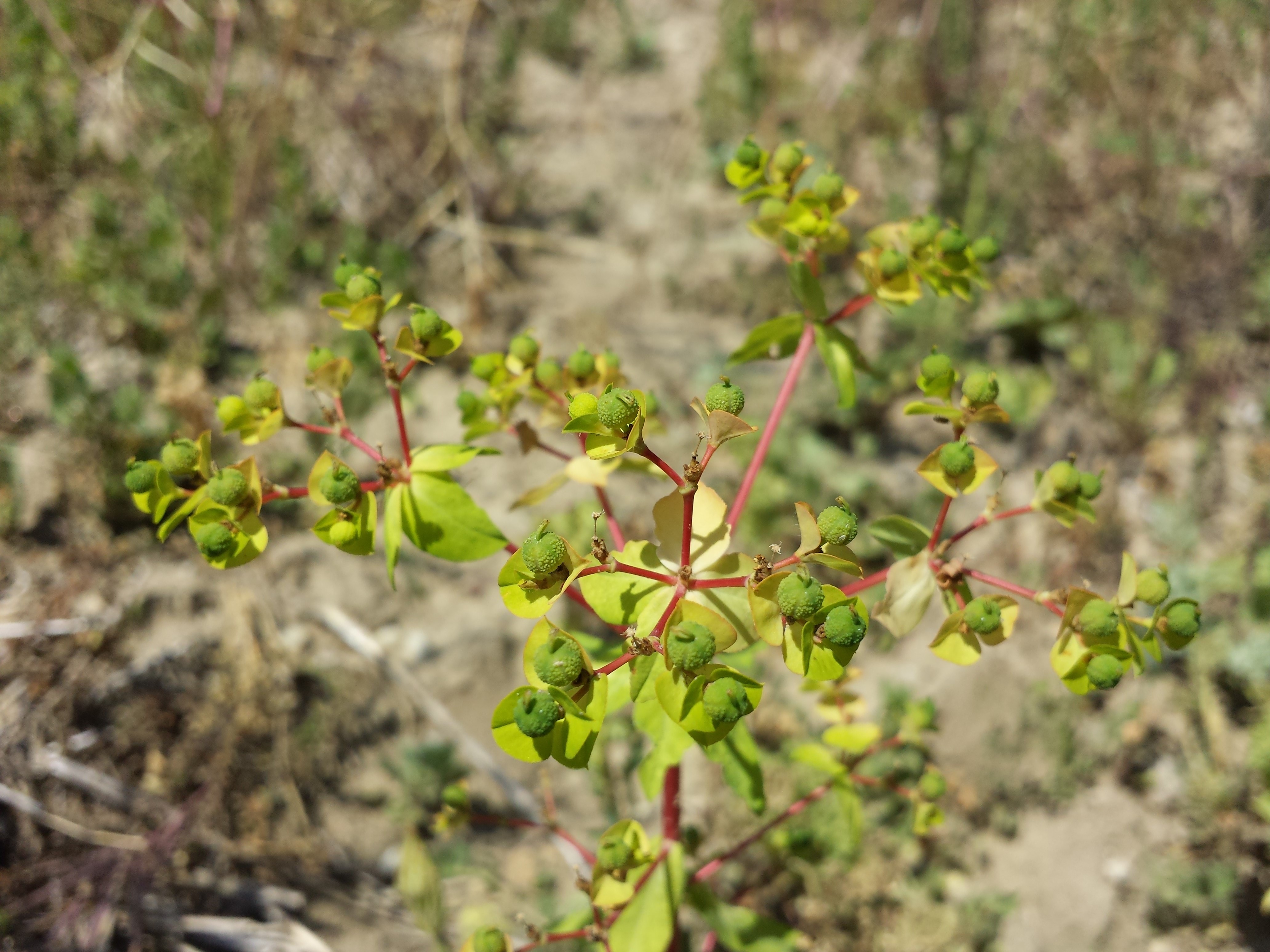 Pleiochasium Taxonym: Euphorbia platyphyllos ss Fischer et al. EfÖLS 2008 ISBN 978-3-85474-187-9 Location: next to Frauendorf an der Schmida, district Hollabrunn, Lower Austria - ca. 300 m a.s.l. Habitat: fallow land